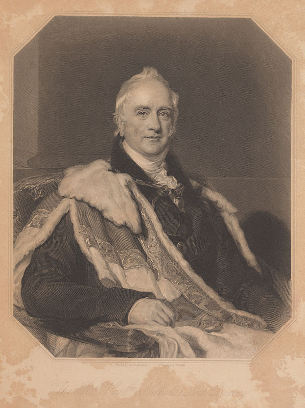 Portrait of Nicholas Vansittart, 1st Baron Bexley (1766-1851)